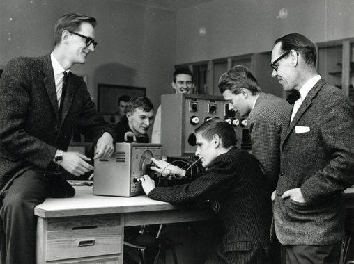 Teacher, Hansjö Rolf, and pupils at the Kattegatt school of Halmstad, in 1963.